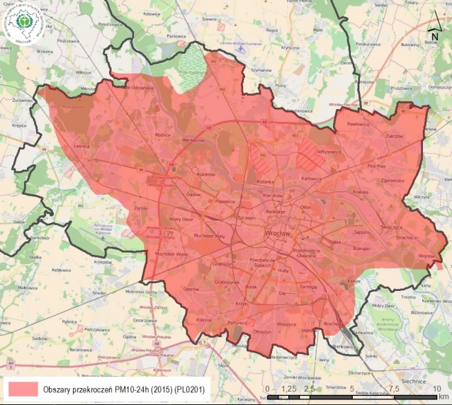 Areas in Wrocław, where PM10 air pollution standards were exceeded in 2015